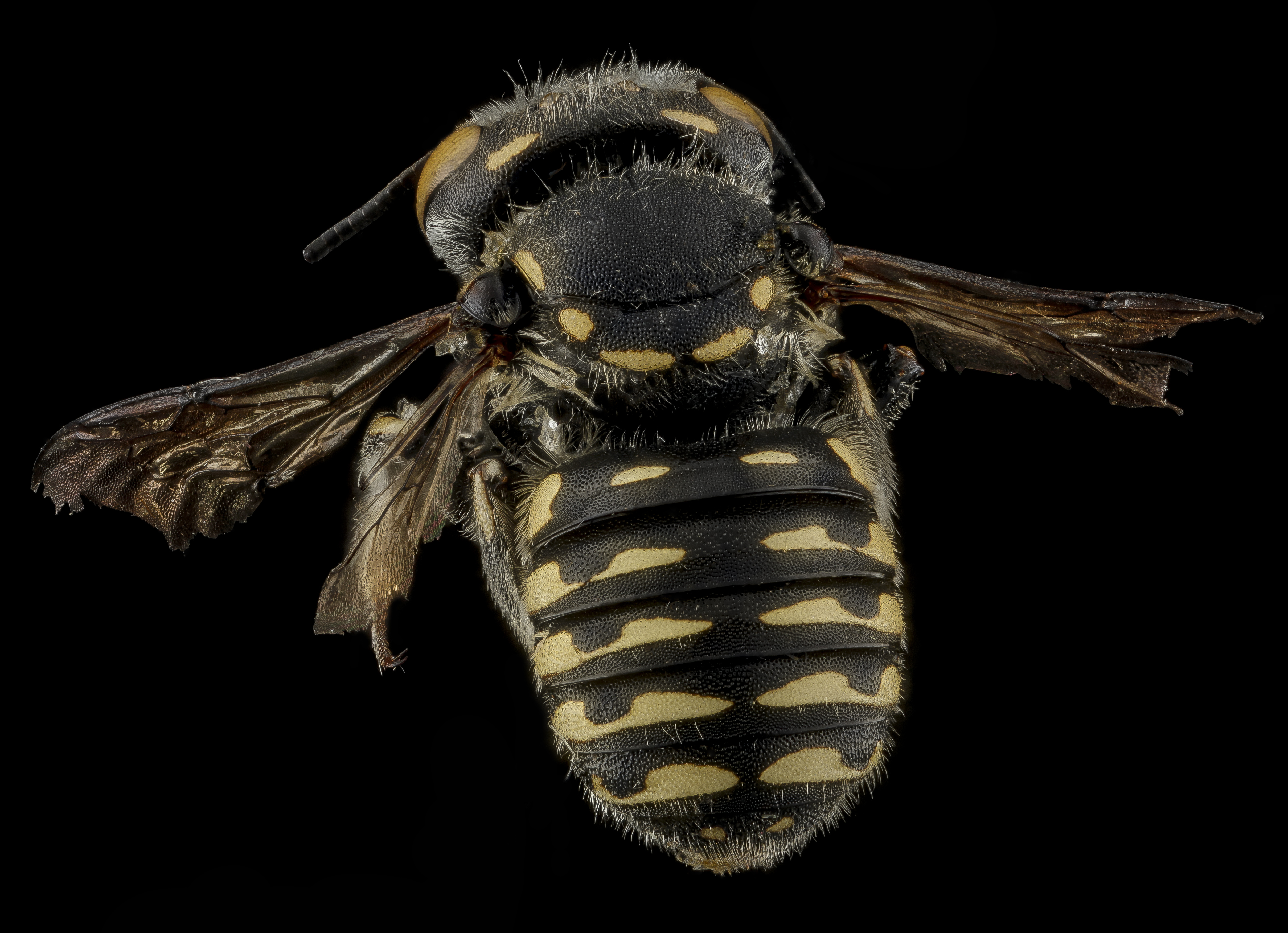 Anthidium maculifrons, female. Fort Matanzas national Monument, Florida